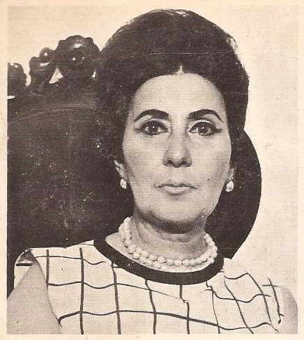 Guadalupe Dueñas (Guadalajara, Jalisco, October 19 1920 - City of México, January 13 2002) was a Mexican writer.